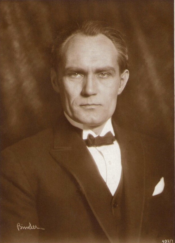 Portrait of German actor Bernhard Goetzke (1884–1964) by Alexander Binder.